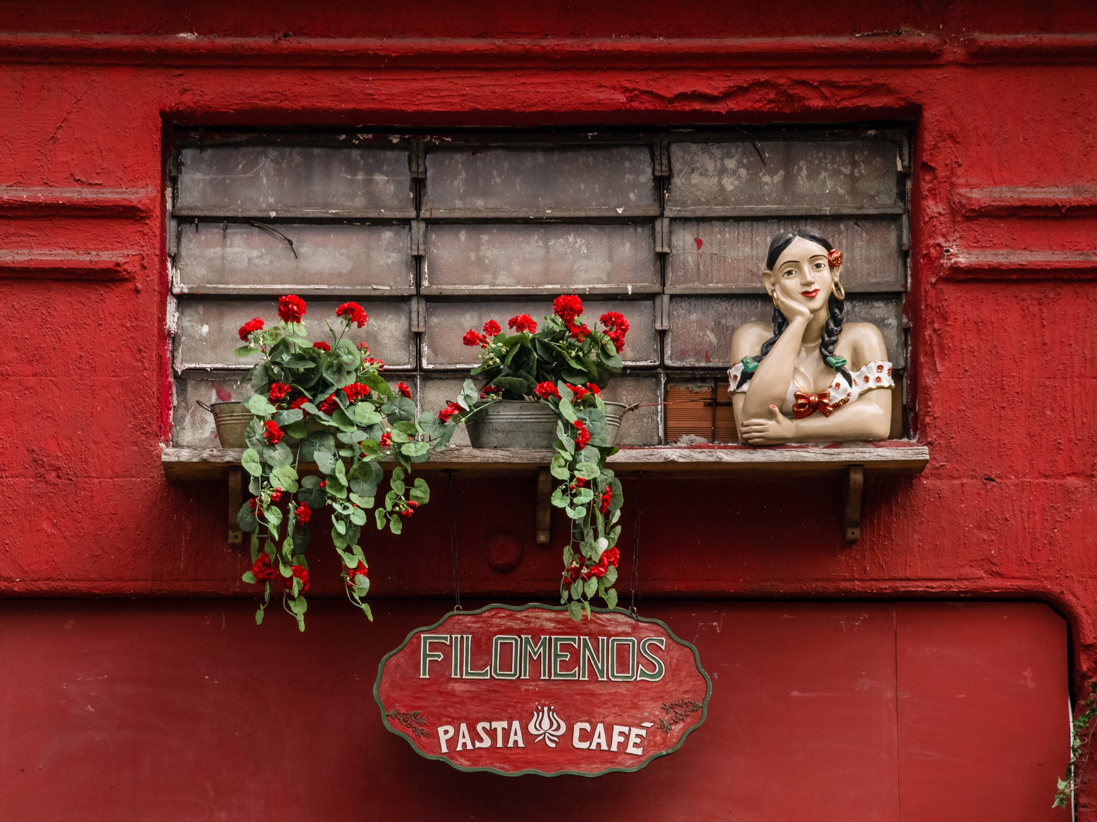 Decorated window of a cafe in Sao Paulo, Brazil.